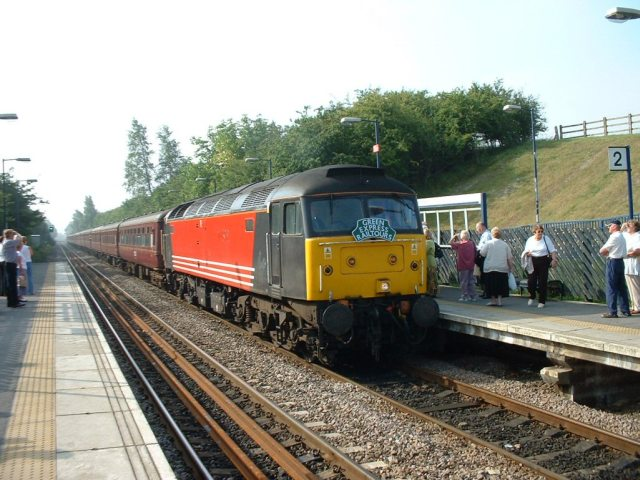 Yarm railway station